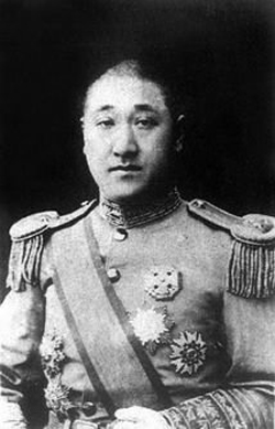 Chinese warlord Xu Shuzheng 徐樹錚